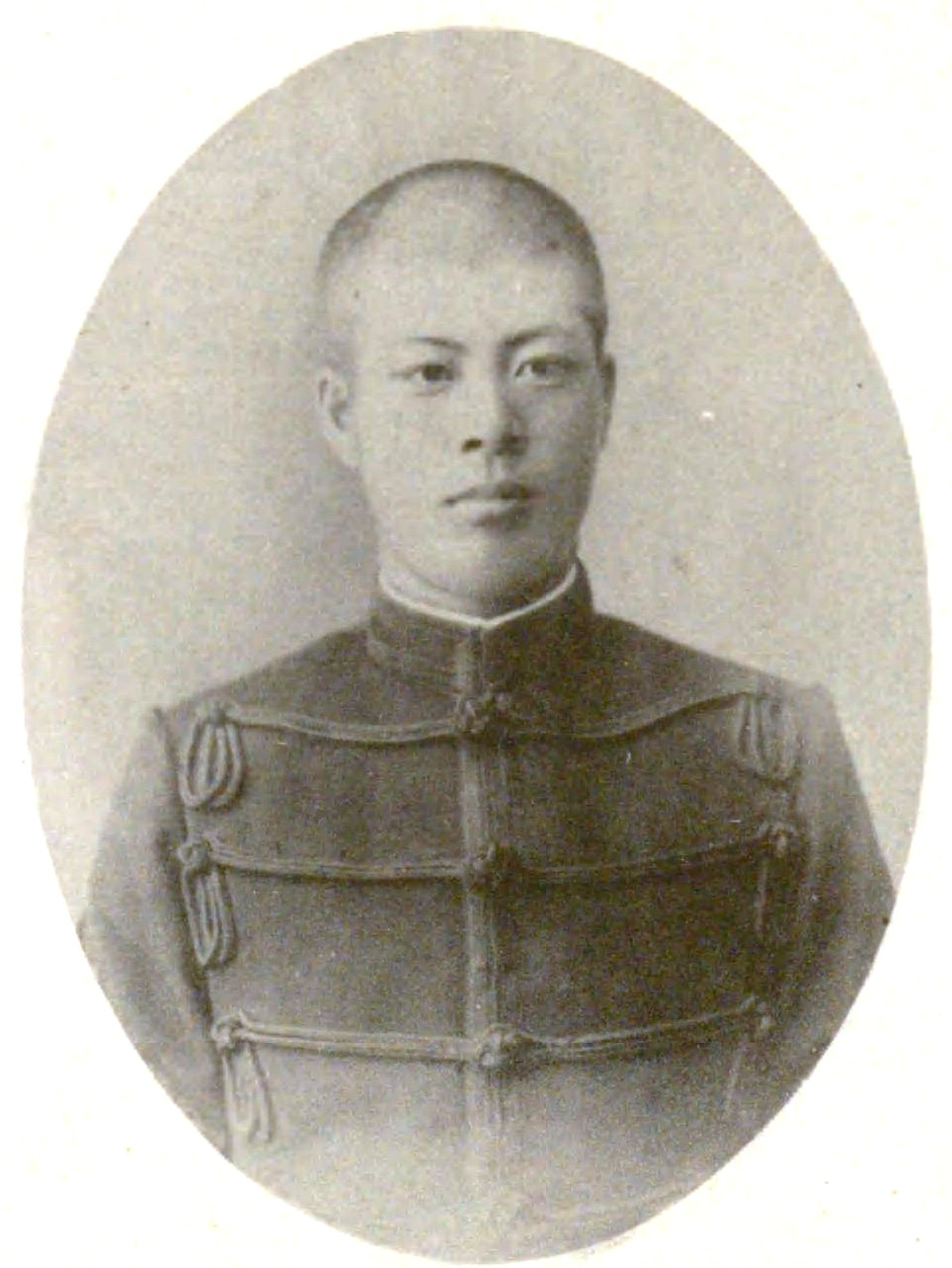 Koike Yasunori is an Imperial Japanese Army second lieutenant